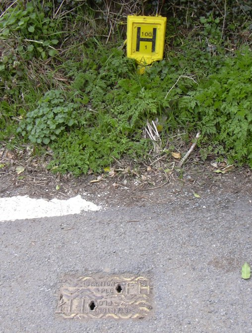 A fire hydrant in Bewdley, UK. Taken by me on 4 April 2006. As with all such signs the number in the top denotes feed pipe size (100=100mm, 6=6 inch) and the lower number the distance from the sign, in metres or feet according to the units of the top number.